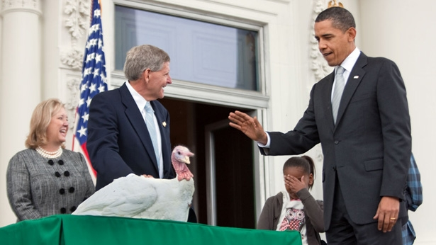 President Barack Obama Officially Pardons The Thanksgiving Turkey 2009, called Courage, presented by the National Turkey Federation, a tradition which the American Presidents do.